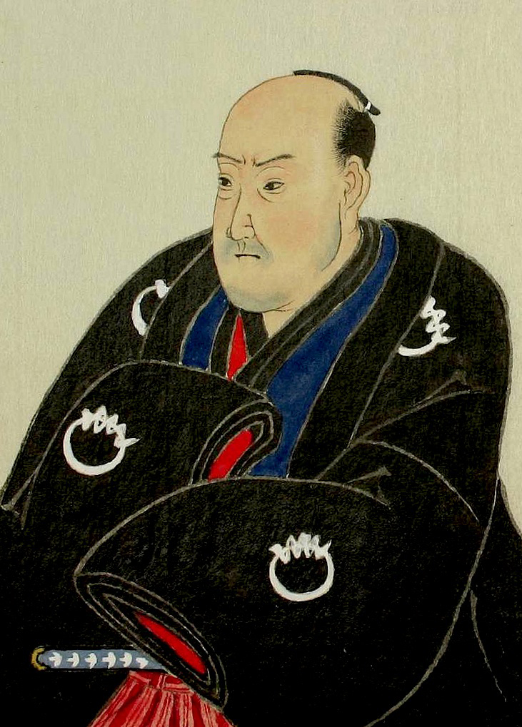 A Portrait of Toyokuni Utagawa I (1769–1825) by Kunisada Utagawa I (1786–1865), from Gisaku Rokkasen (1856). A collection of Waseda University Tsubouchi Memorial Theatre Museum.